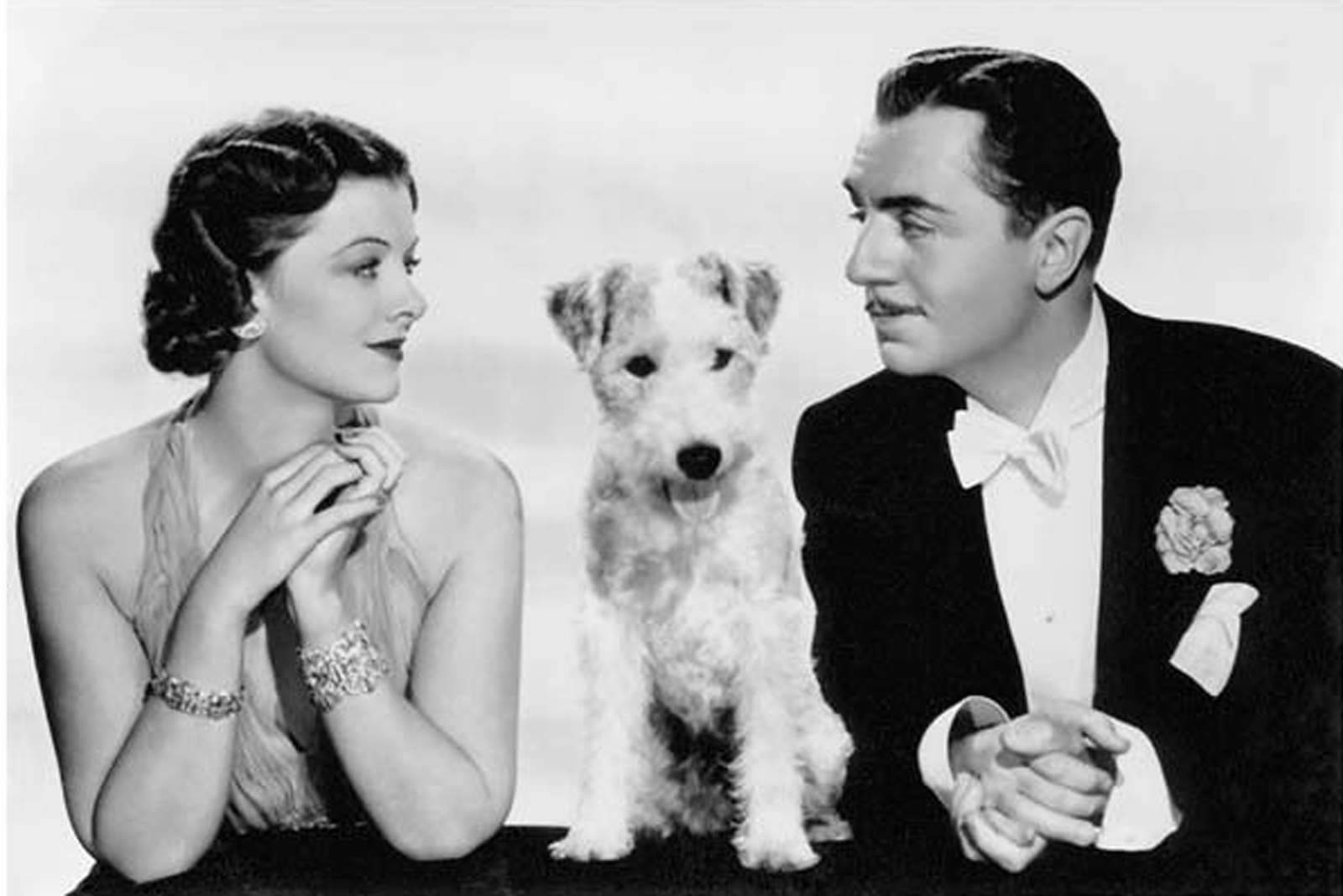 Publicity Photo for The Thin Man, with Myrna Loy, Skippy, and William Powell, 1936